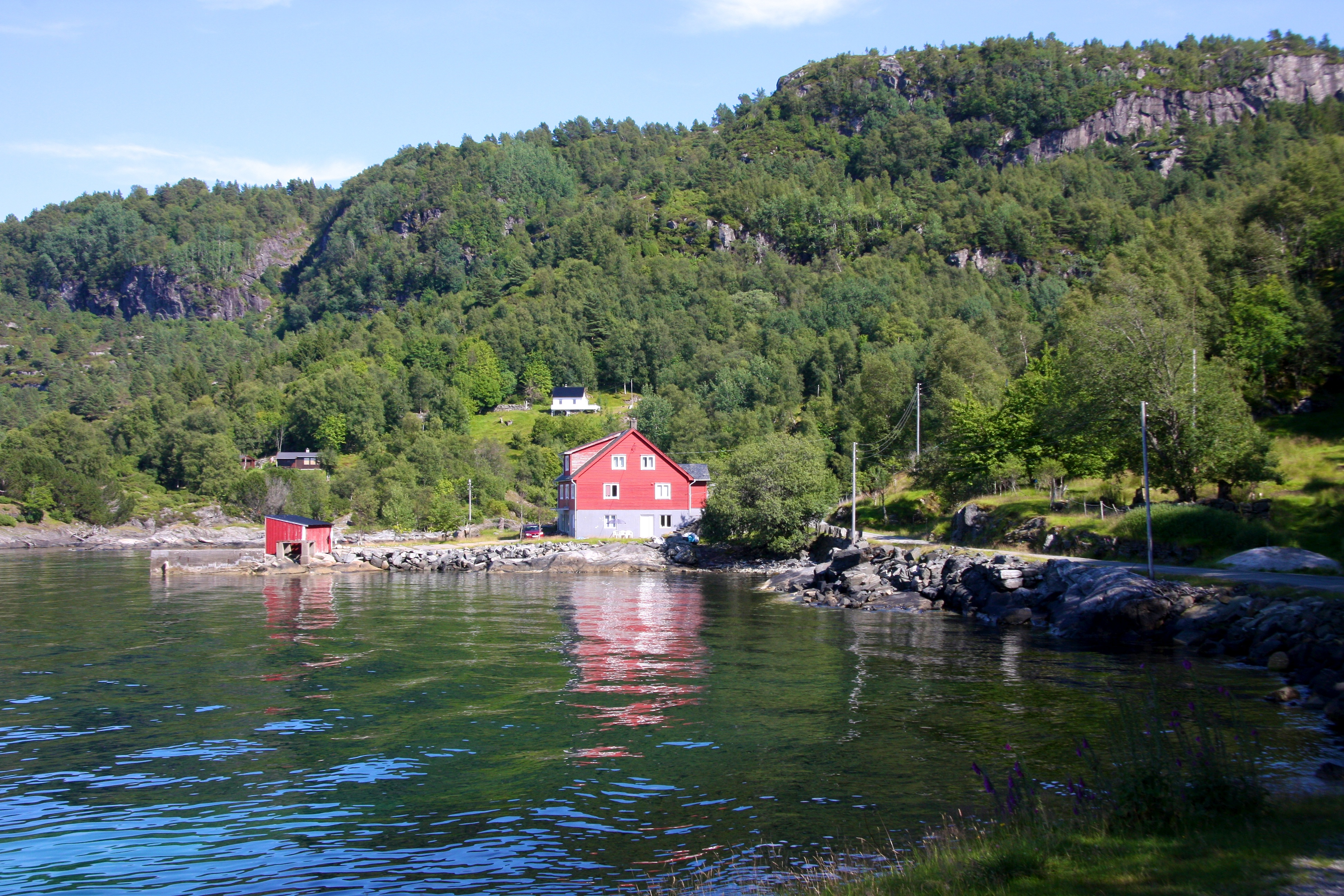 Sygnefest in Gulen municipality, Norway.